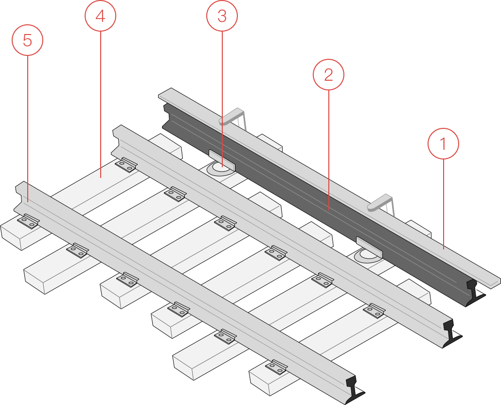 Third rail layout. 1:Cover 2:Power rail 3:Insulator 4:sleeper 5:Rail